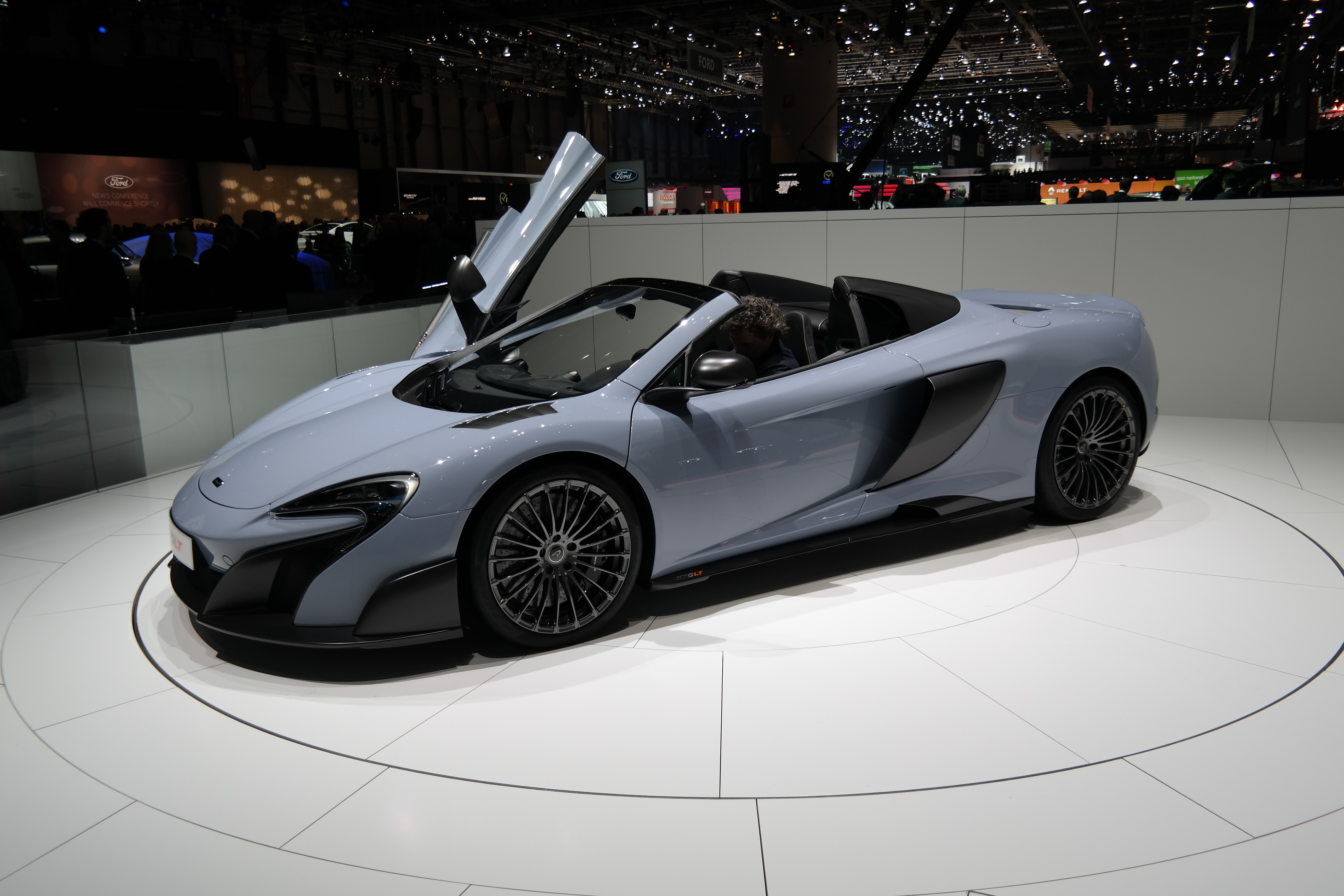 Geneva Motor Show 2016 (photo taken on the first press day)